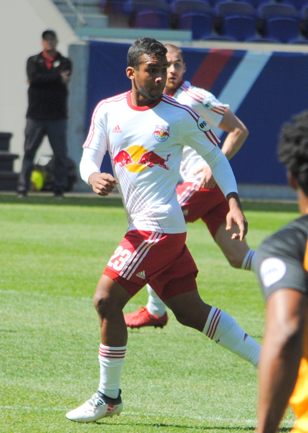 Cristian Cásseres Jr. RBNY